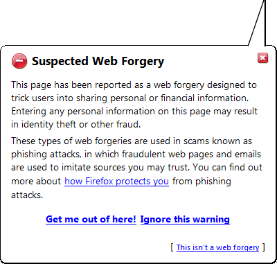 Screenshot of Firefox 2.0.0.1 Phising suspicious site warning